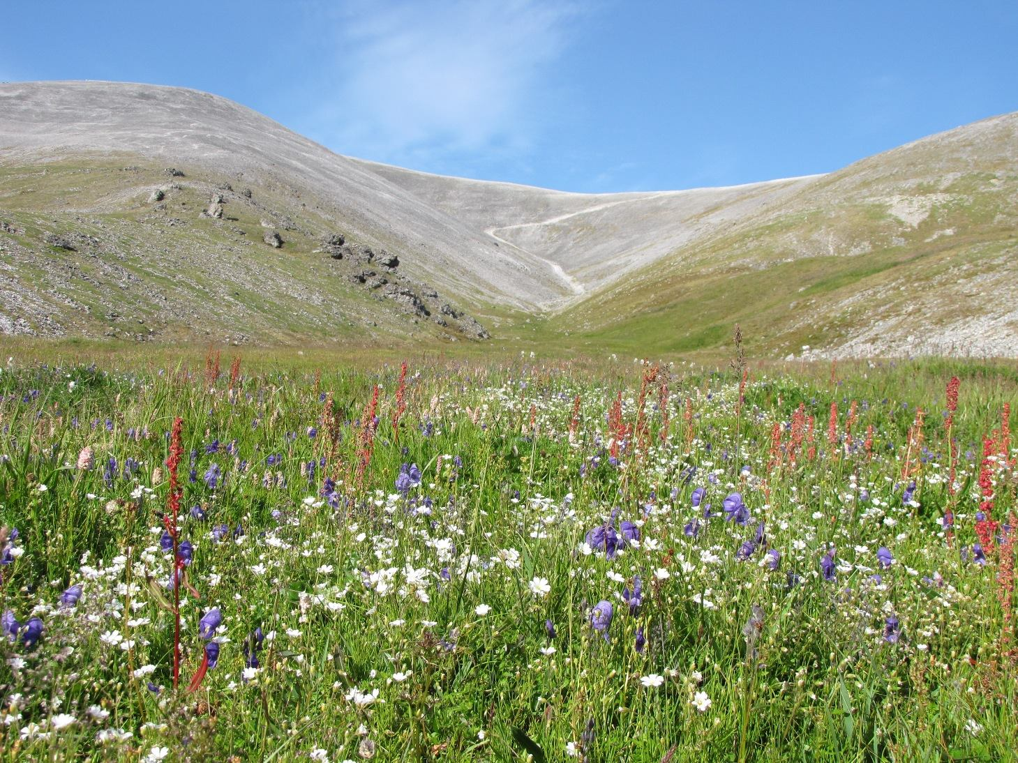 Wildflowers on Cape Lisburne by Dave Kuehn/USFWS.